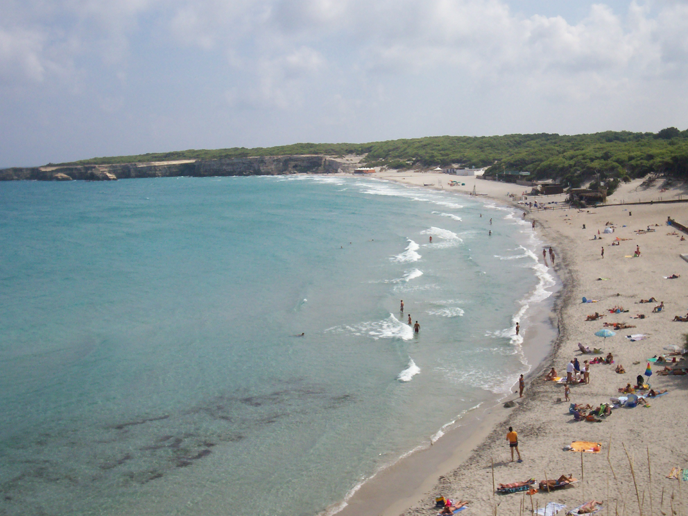 Torre dell'Orso's beach. It is a bathing locality belonging to the district of Melendugno, in the Province of Lecce - Apulia (Italy)